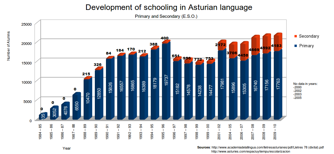 Development schooling in Asturian language. Chart data based on: and